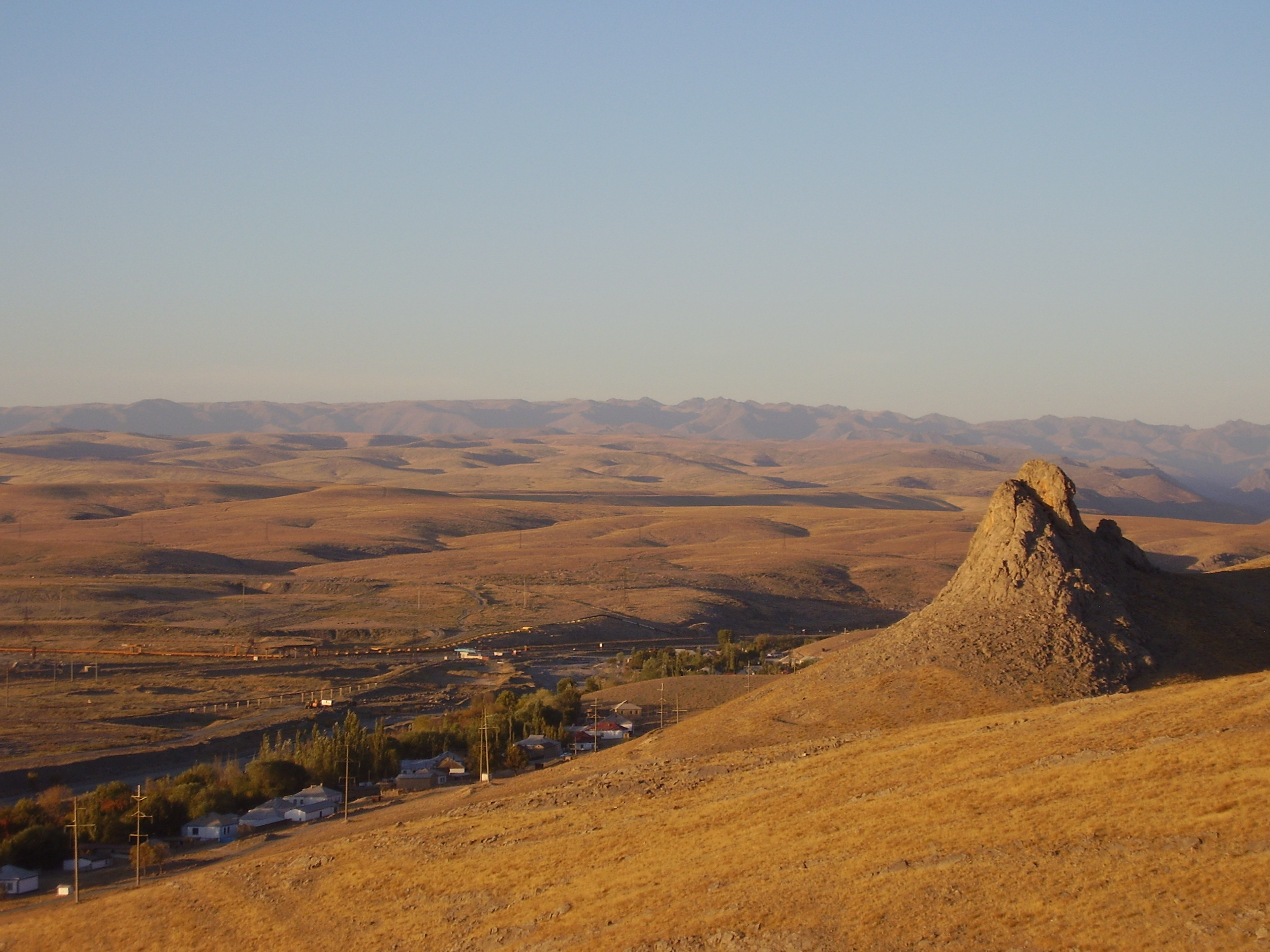 Kentau, South Kazakhstan Province. A view from top of mountain behind city. At the right a rock "Camel". A valley of the river Kantagi. Karatau Mountains.